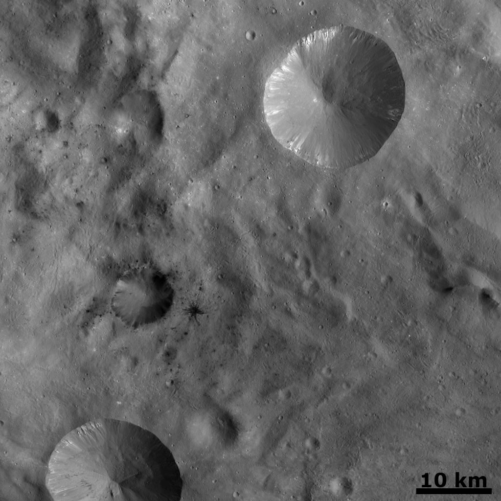 In this Dawn FC (framing camera) image, a number of small dark areas, mostly clustered in the center and left of the image, are visible in Vesta’s cratered landscape. A lot of these dark patches are small impact craters, which may have excavated dark material from a shallow subsurface layer of Vesta. One of these small craters, in the left middle of the image, features dark rays. This is unusual as rays from impact craters are generally of higher albedo (eg. brighter) than the surrounding surface. This landscape is dominated by two large bowl-shaped fresh scarp rimmed craters, which are approximately 10–20 km in diameter. Bright material is seen slumping into these craters, generally from their rims. NASA’s Dawn spacecraft obtained this image with its framing camera on October 2nd 2011. This image was taken through the camera’s clear filter. The distance to the surface of Vesta is 702km and the image resolution is about 66 meters per pixel.